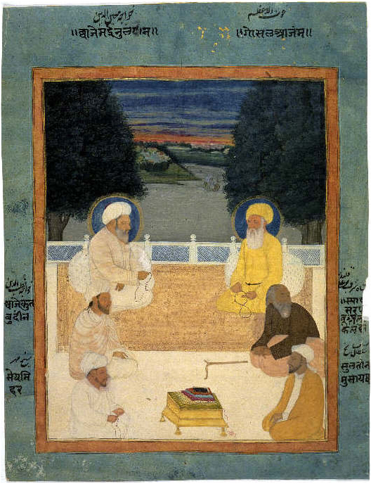 Six Sufi masters: Khvaja Mu'in al-Din, Ghaus al-A'zam, Khvaja Qutb al-Din, Shaikh Mihr, Shah Sharaf Bu 'Ali Qalandar and Sultan-ul-Mashaikh; a painting in opaque watercolor and gold, c.1760* (BL)